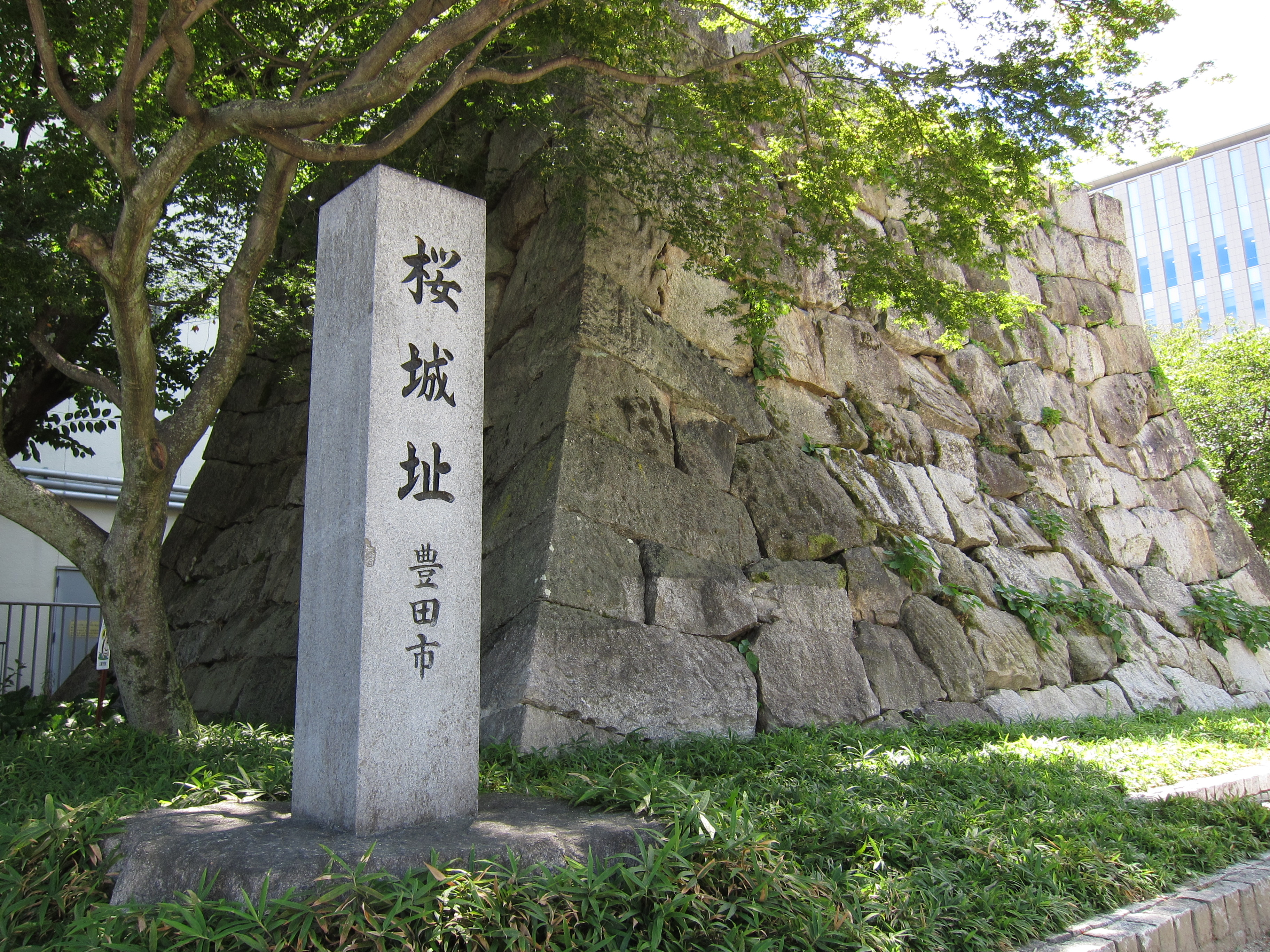 Sakura Castle, Toyota, Aichi, Japan